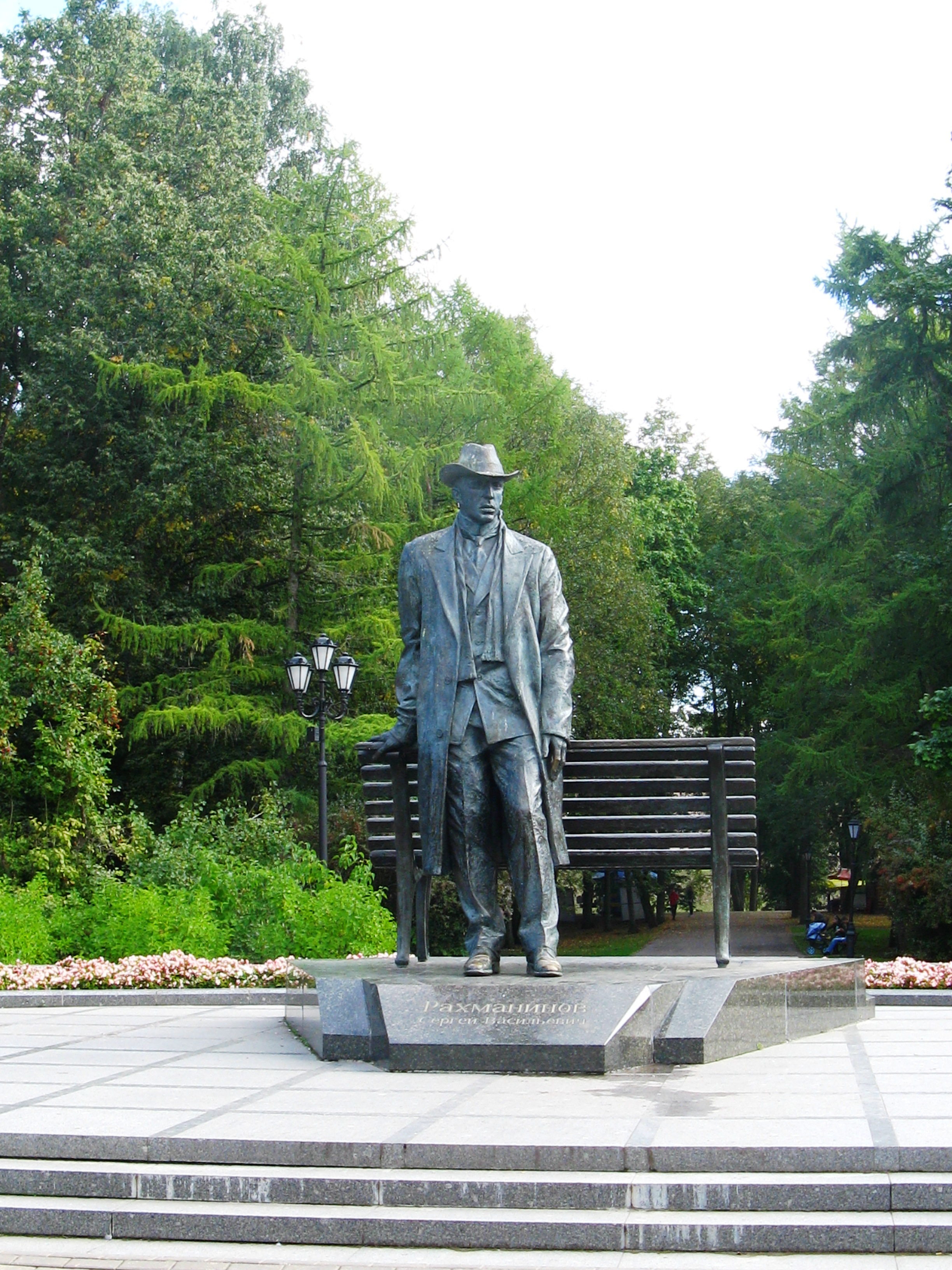 This monument is in Novgorod Velikiy (Russia)